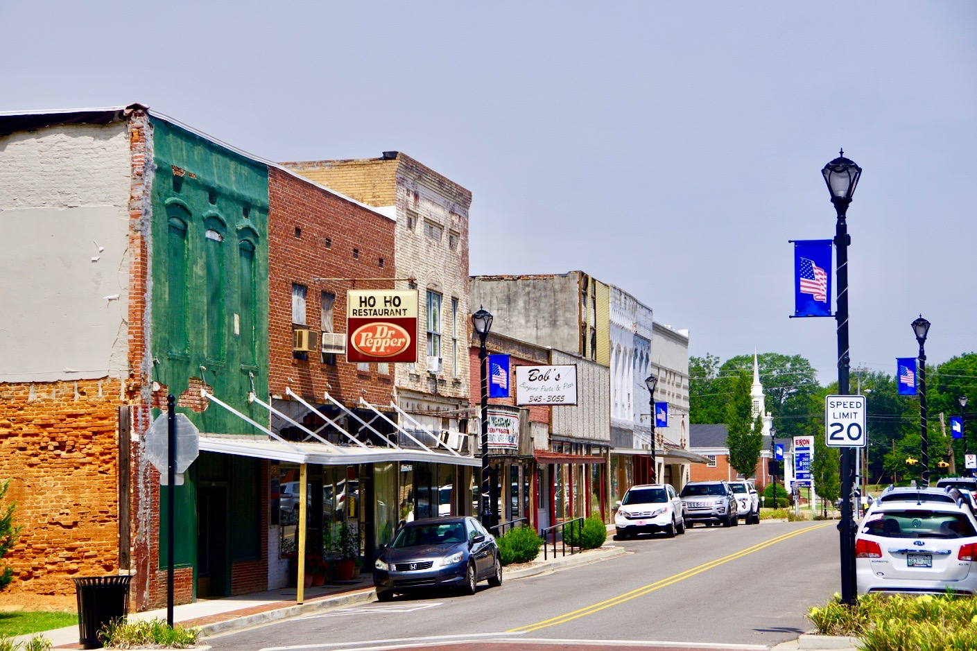 Businesses along Main Street in Bells, Tennessee, United States.